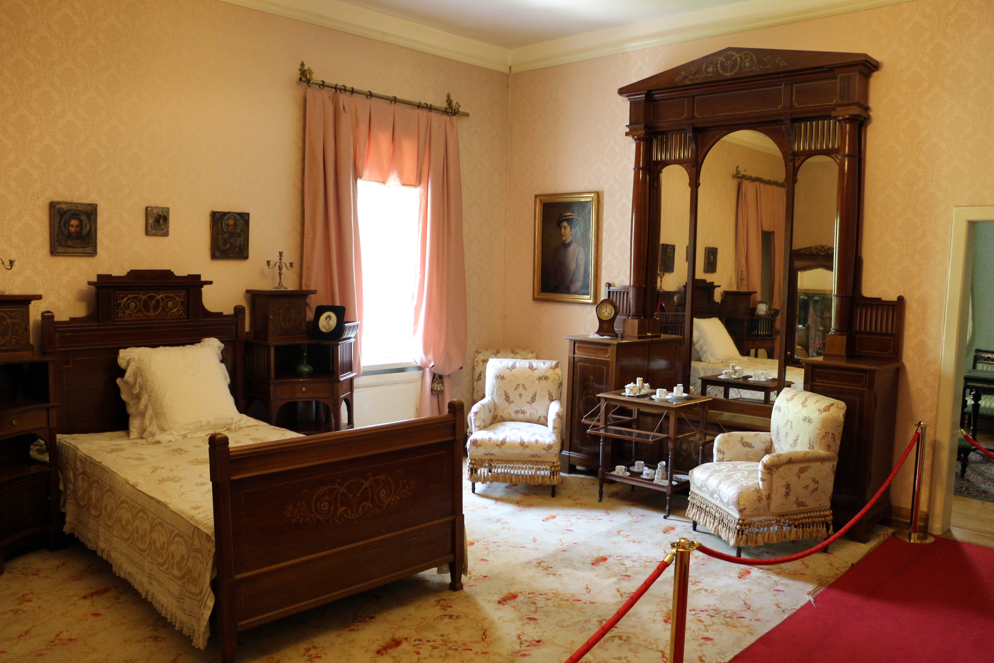 King Nikola's Palace in Cetinje